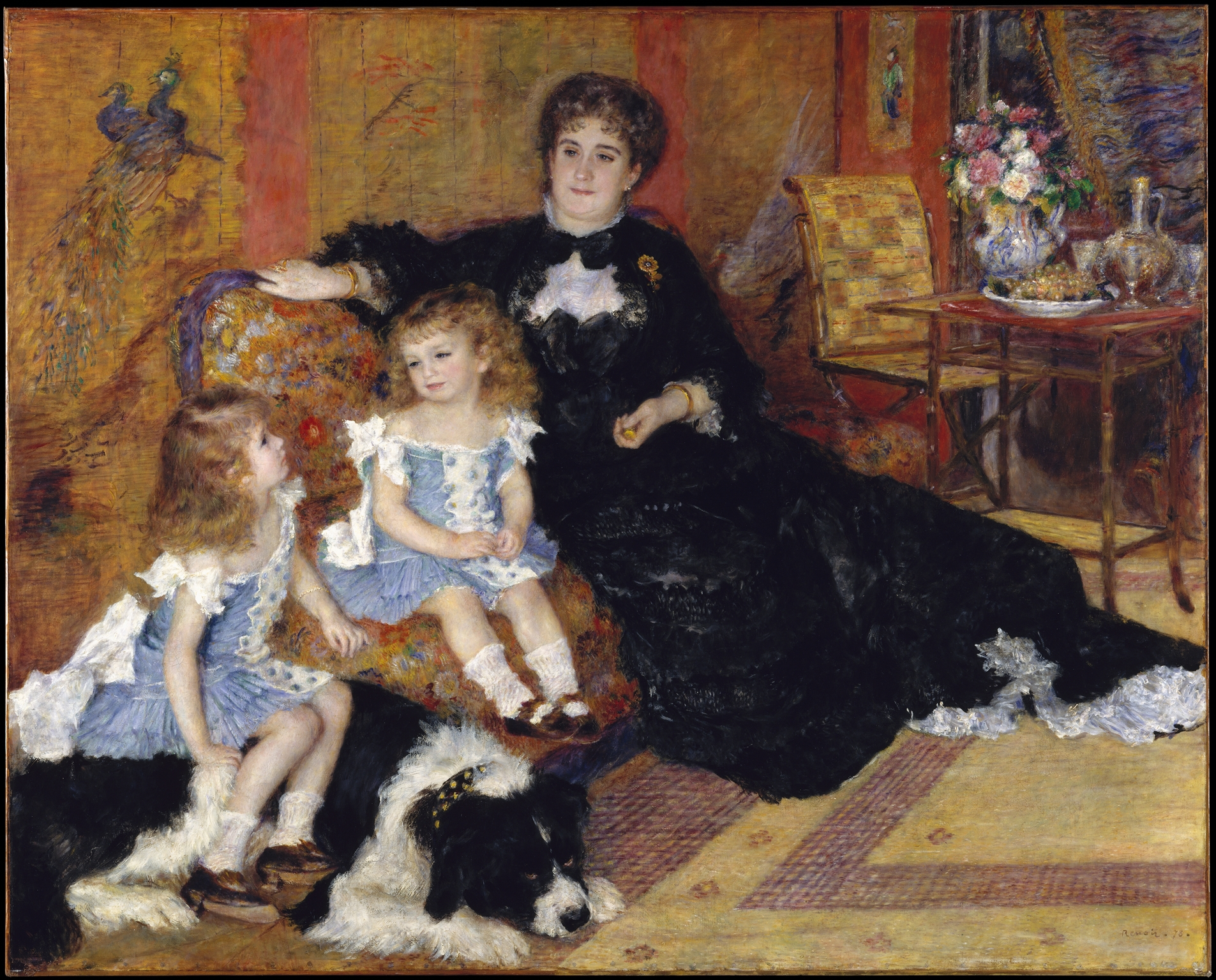 Madame Georges Charpentier (Marguerite-Louise Lemonnier, 1848-1904) and her children, Georgette-Berthe (1872–1945) and Paul-Émile-Charles (1875–1895)